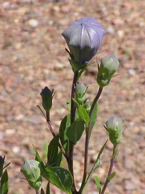 Species: Platycodon grandiflorus Family: Campanulaceae Image No. 1